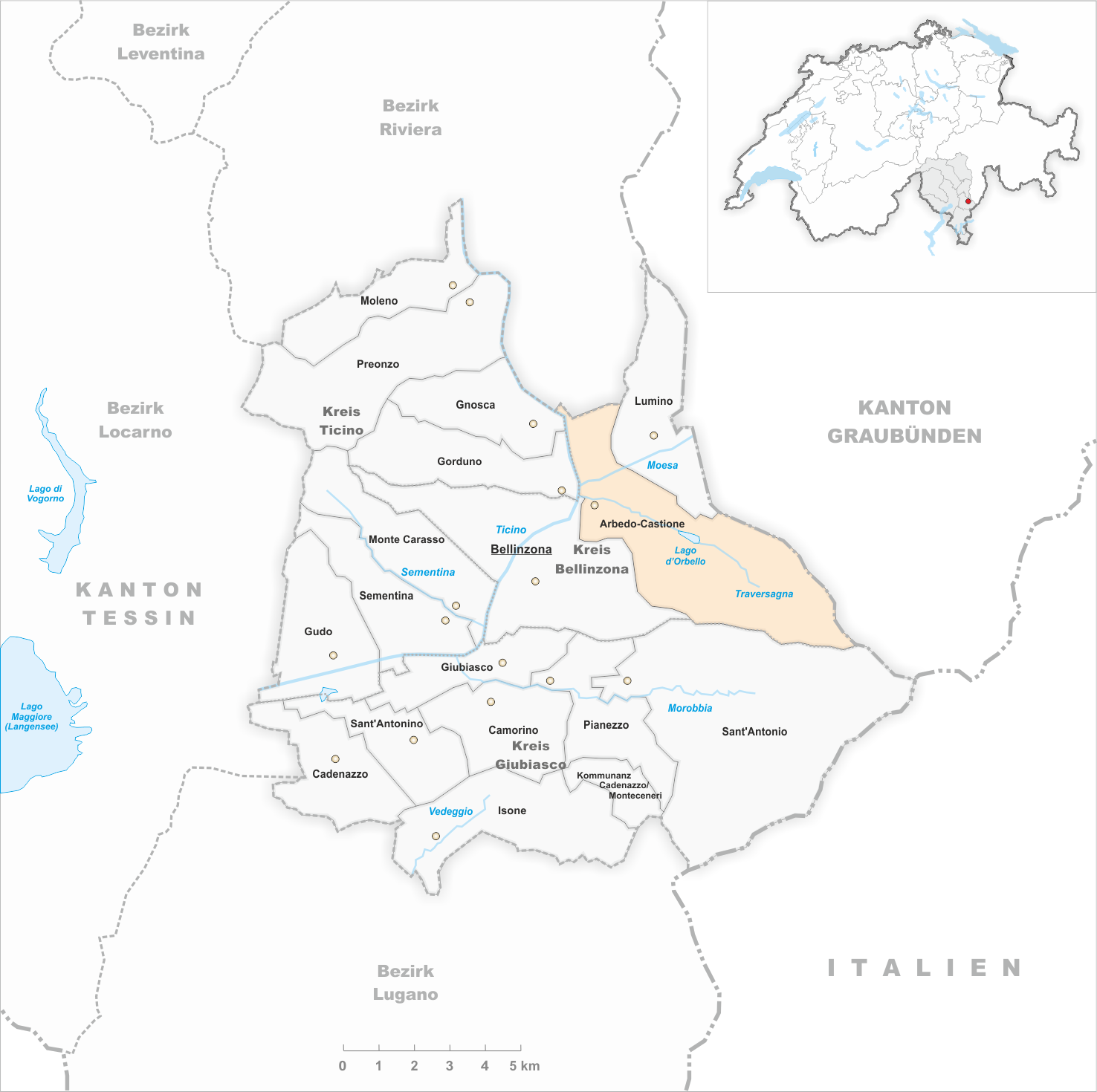 Municipality Arbedo-Castione